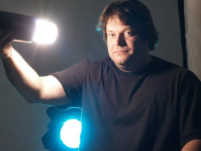 John Machnik holding a ProFoto strobe during a photo shoot test.